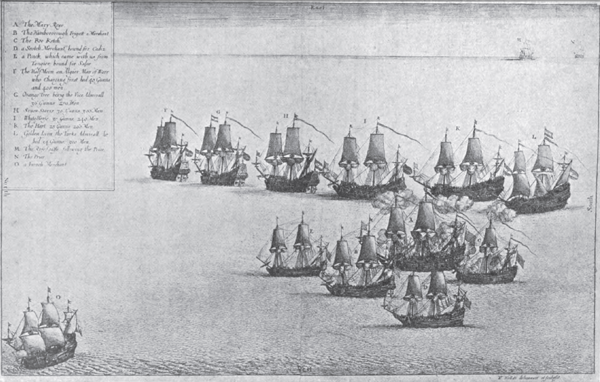 Captain John Kempthorne's Engagement With Six Ships of Algiers in 1669, by Wenceslaus Hollar Hollar was present at the battle.